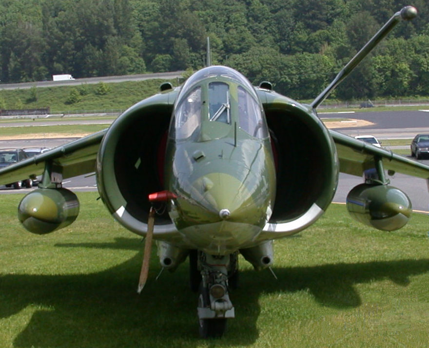 USMC BAE/MDD AV-8C Harrier, Seattle Museum Of Flight, Washington